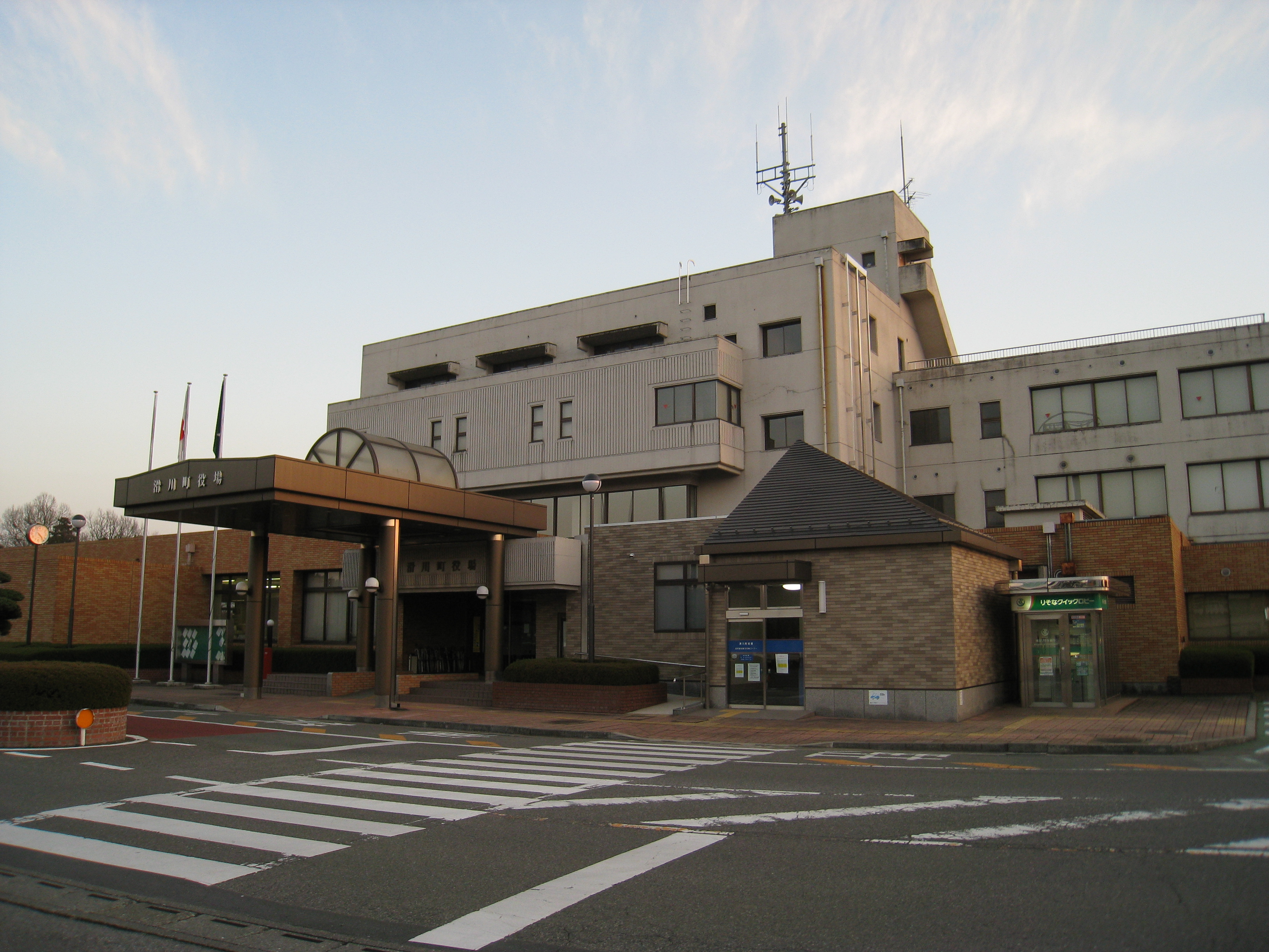 Namegawa Town Hall